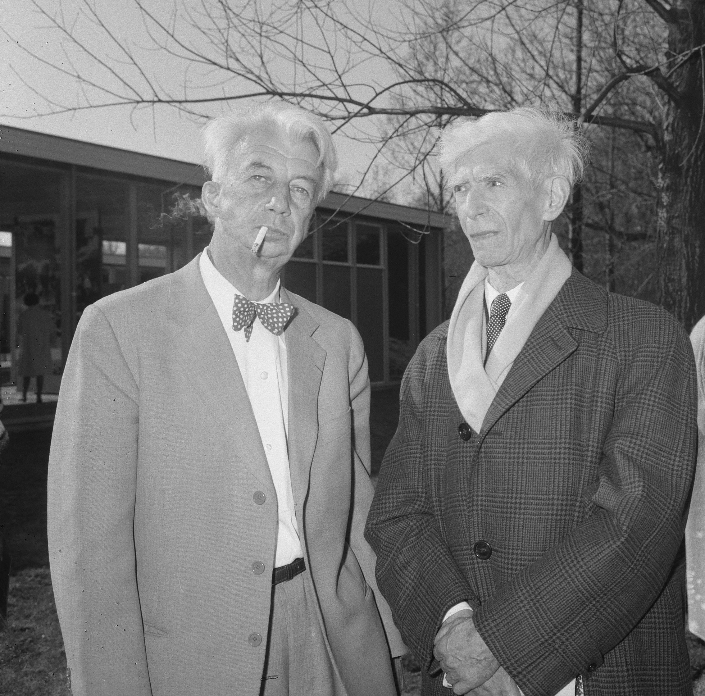 Willem Sandberg(l) (oud-directeur Stedelijk Museum) en beeldhouwer Osip Zadkine (m) bij de opening van de beeldententoonstelling t.g.v. 100 jaar Vondelpark.